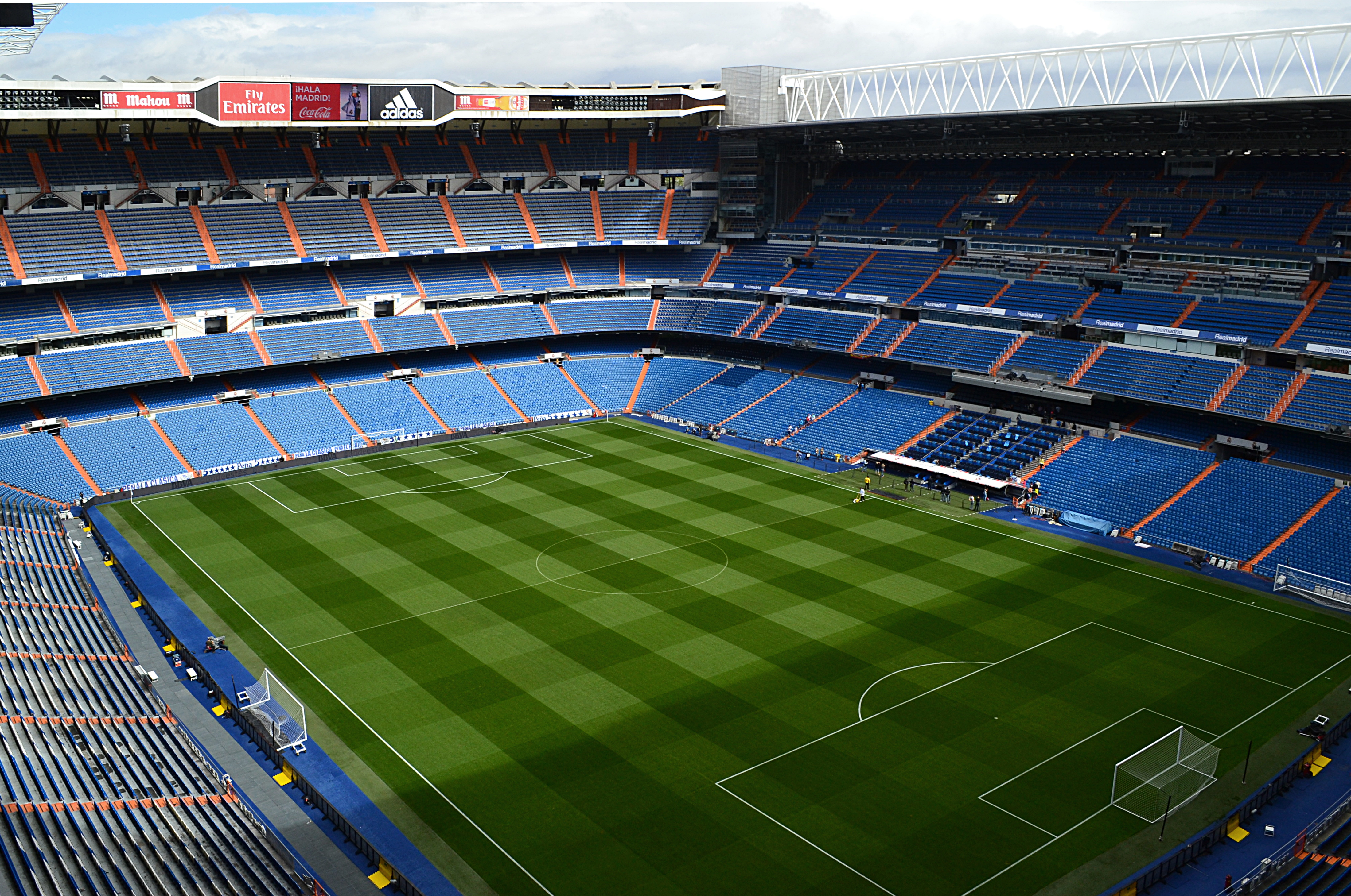 Interior of Santiago Bernabéu Stadium.